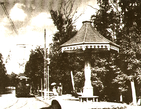 Torun, Poland, tramway place 1913